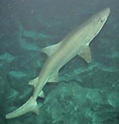 Smalltooth sand tiger shark (Odontaspis ferox) at the Northampton Seamount.